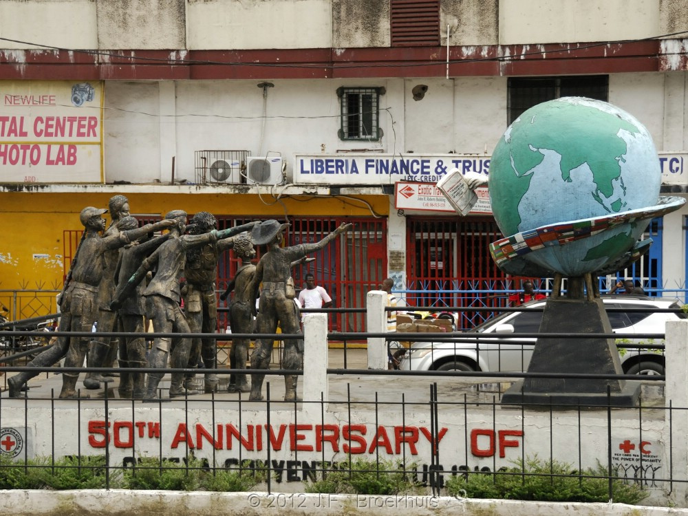 Broad Street, Monrovia, Liberia